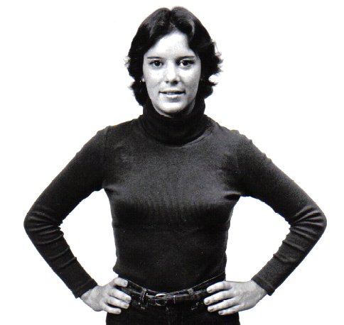 b/w photograph of arms akimbo, cleaned up by Micze